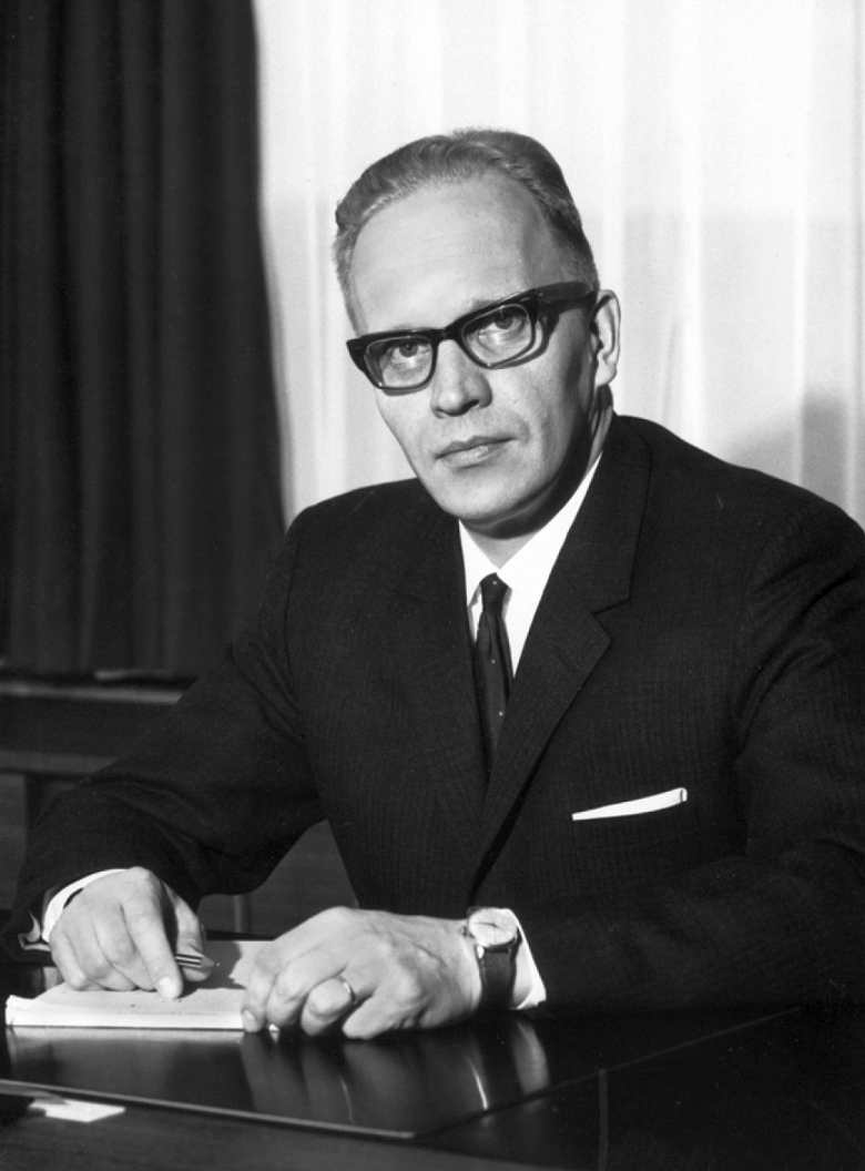 Photograph of the Finnish sociologist and professor Paavo Koli (1921–1969) as the rector of Tampere University.